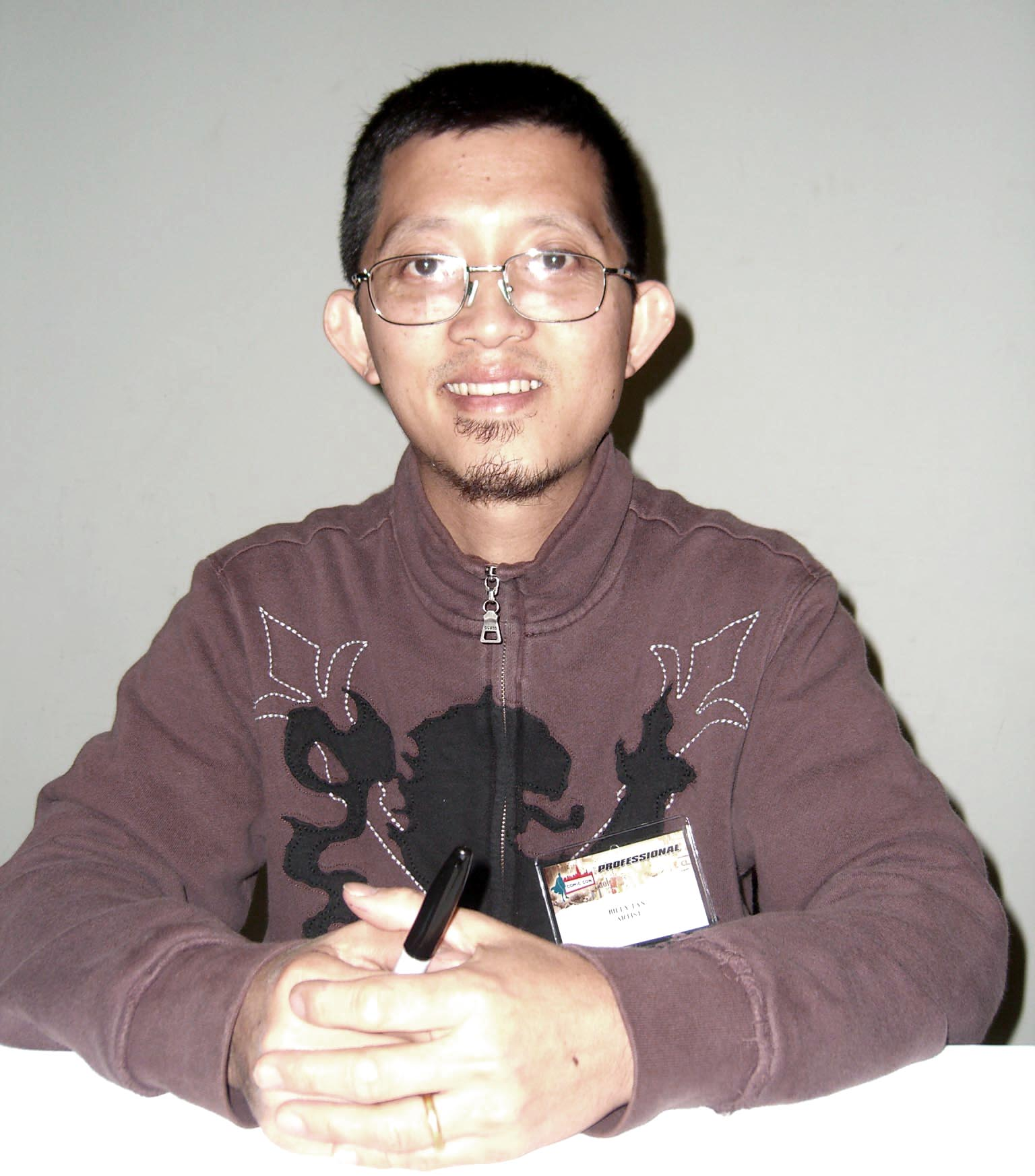 Comic book creator Billy Tan at the Big Apple Convention in Manhattan. Photographed by Luigi Novi. This photo may only be used if the photographer is properly credited. (See Licensing information below.)